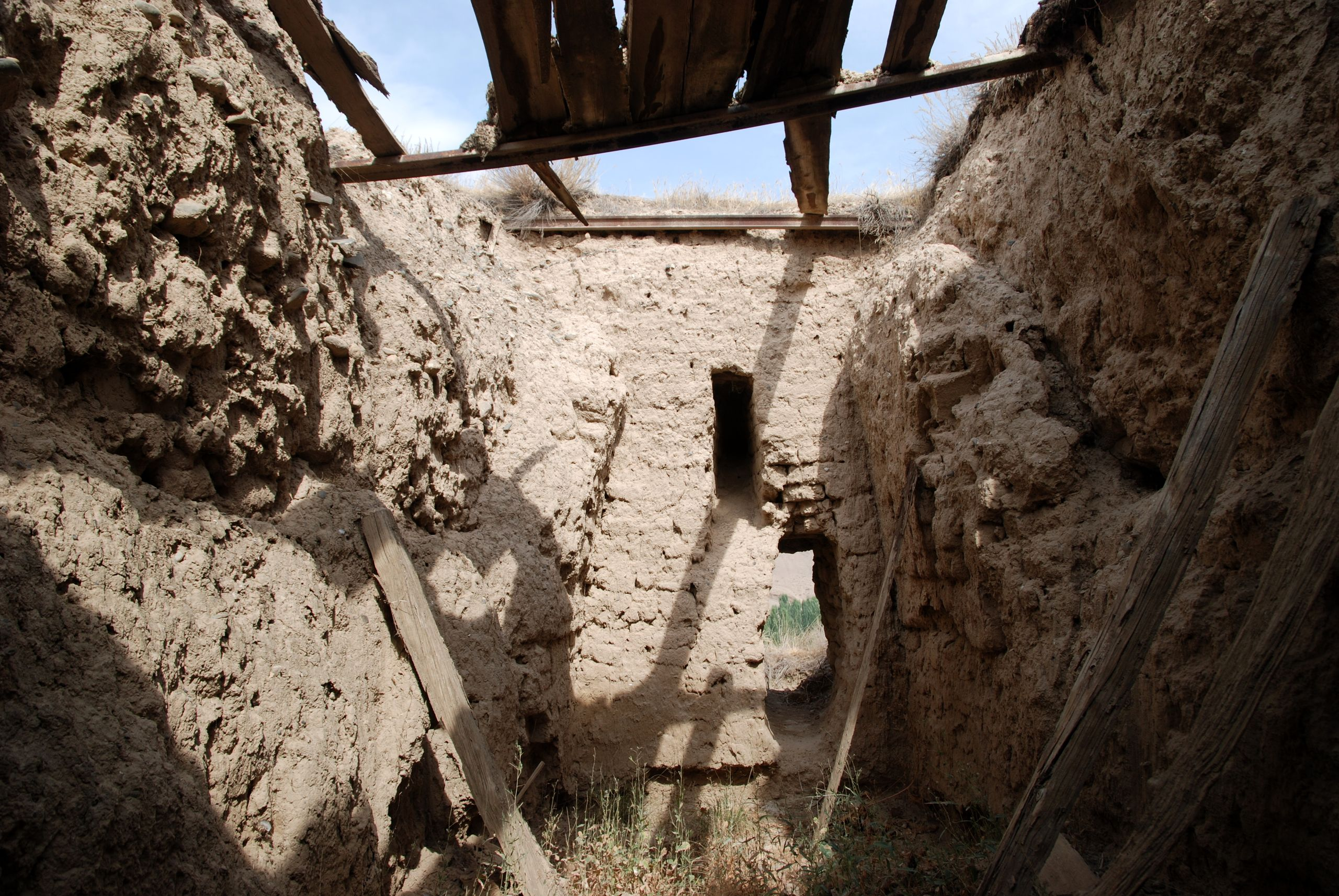 Jarkutan, Sughd province, Chilhudjra